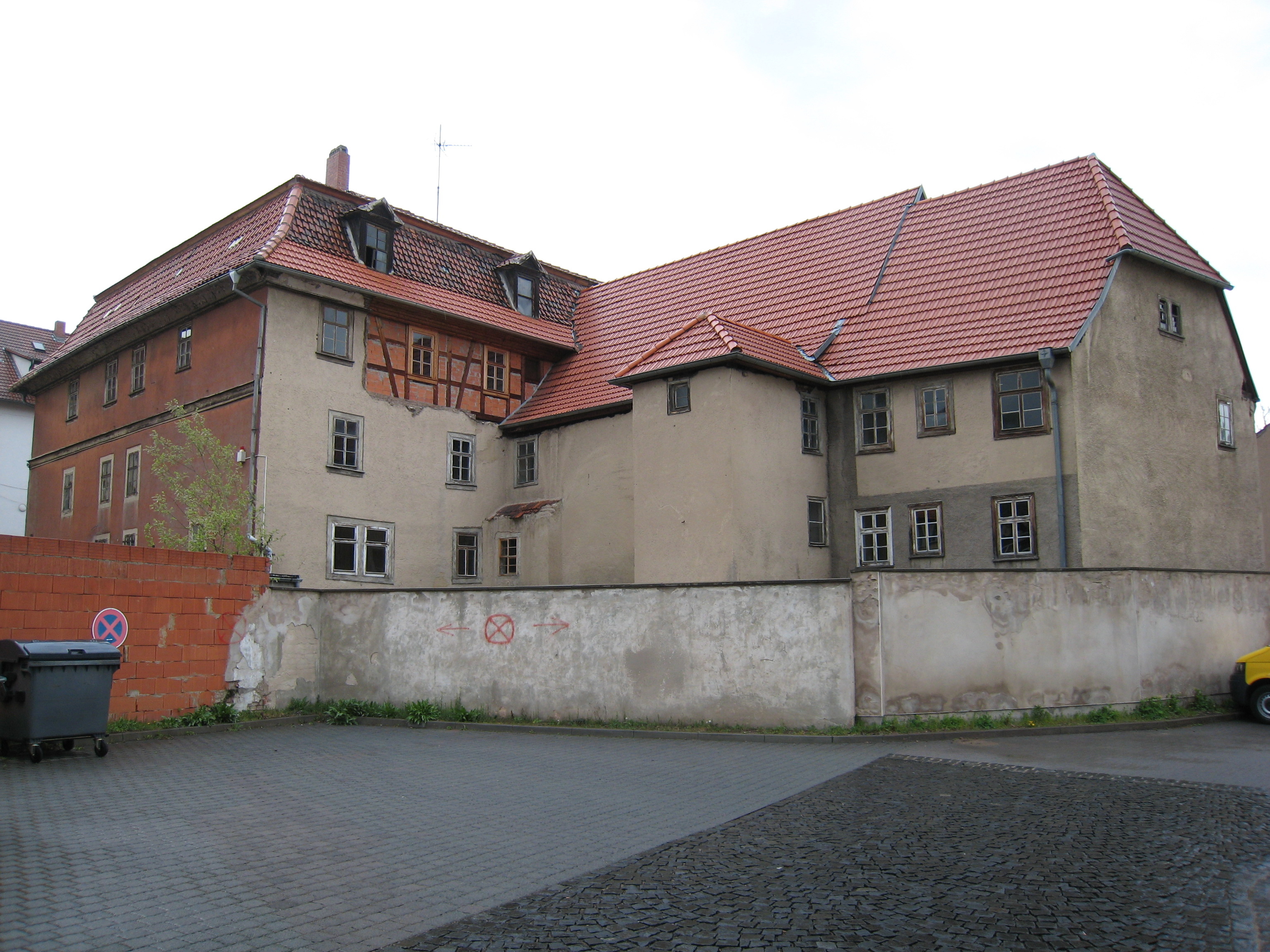 former hospital